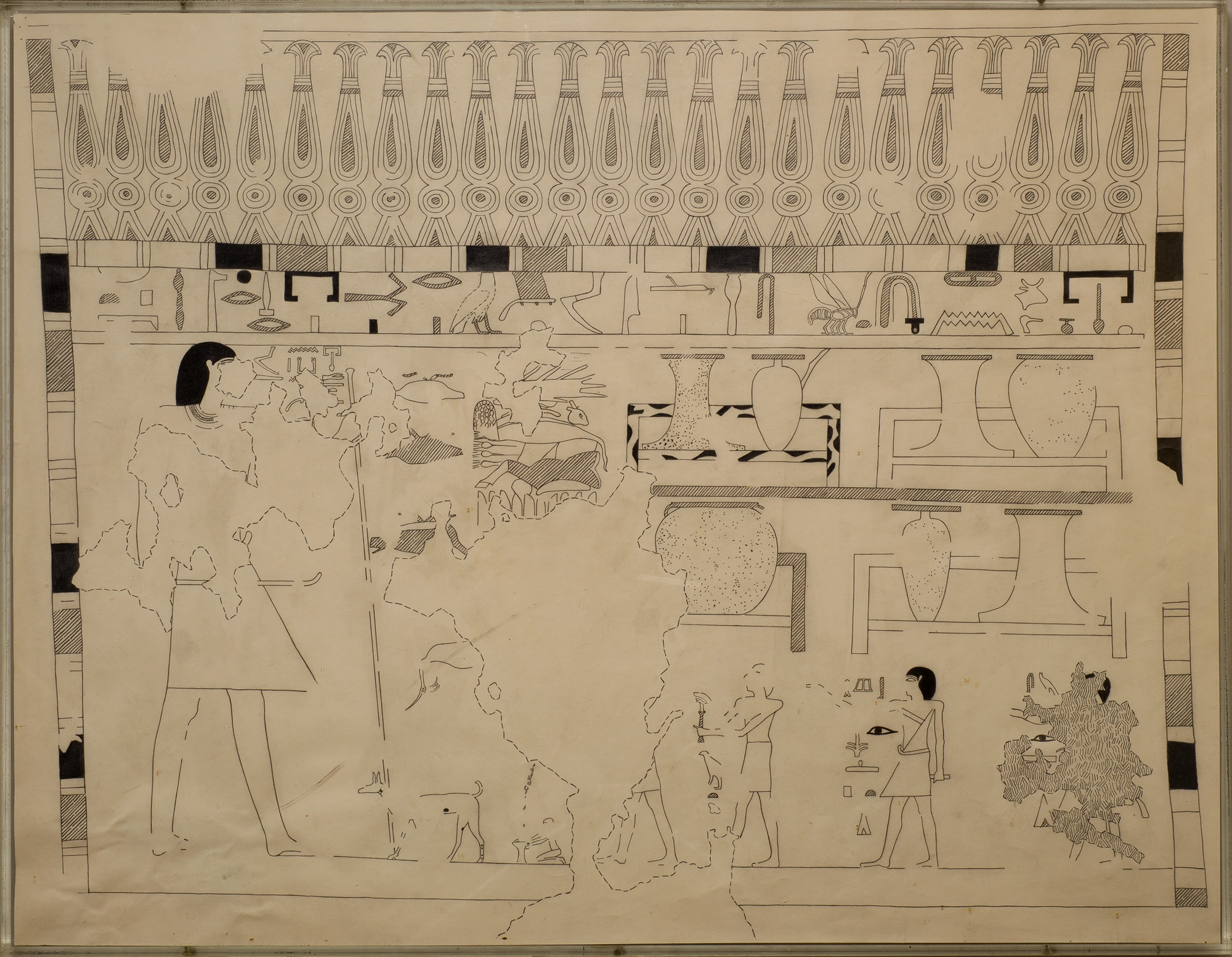 Facsimile, Djari (TT 366), offerings